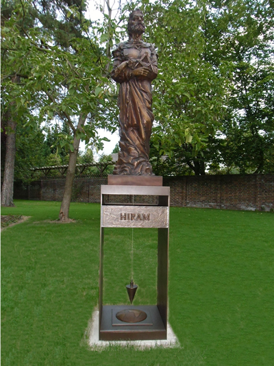 Bronze Statue "Hiram", builder of the Temple of Solomon by Nikolaus Otto Kruch